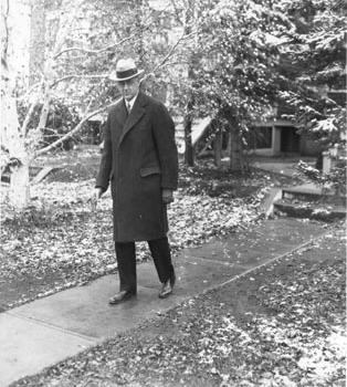 John Brownlee, Premier of Alberta, leaving his house